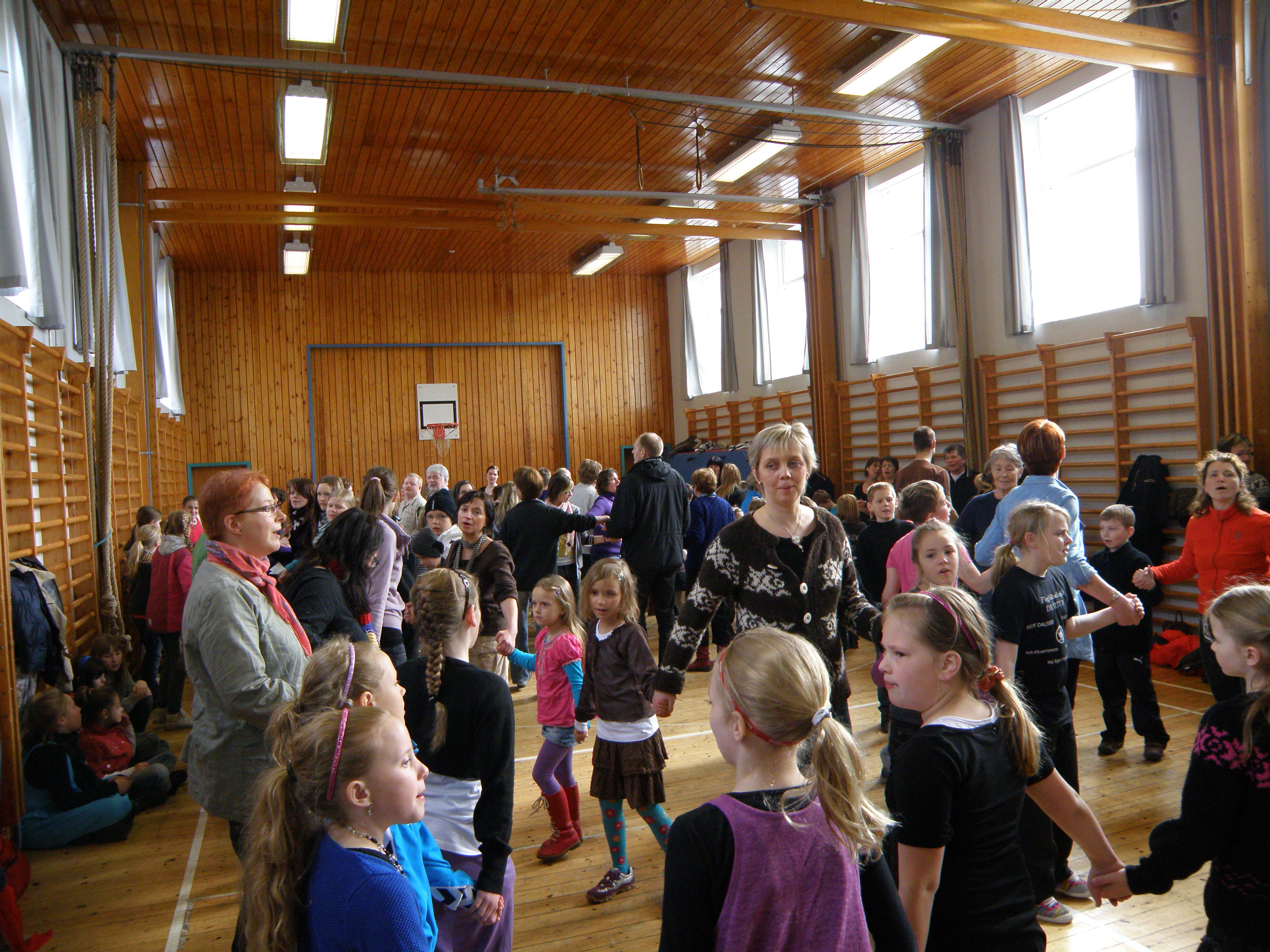 Faroese chain dance in the village Eiði, in the north of Eysturoy, Faroe Islands. A dancing festival for children from all of the Faroes, who gather once every year to dance the traditional Faroese chain dance. Parents and some grand parents are also dancing with the children, but first of all they get a chance to try it themselves and have fun also. The festival is not in the same village every year, different dancing associations around the islands take turn to arrange the festival for the children together with Slái Ring. Føroyskt: Landsdansistevna - ella landsbarnadansistevna - 2010 fyri børn varð hildin á Eiði. Á slíkari stevnu fáa børn úr øllum Føroyum høvi til at hittast og dansa føroyskan dans. Nøkur foreldur, ommur og abbar eru eisini við. Feløgini skiftast til at sýna fram eitt ella tvey kvæði og at enda dansa øll saman, um pláss er fyri tí.